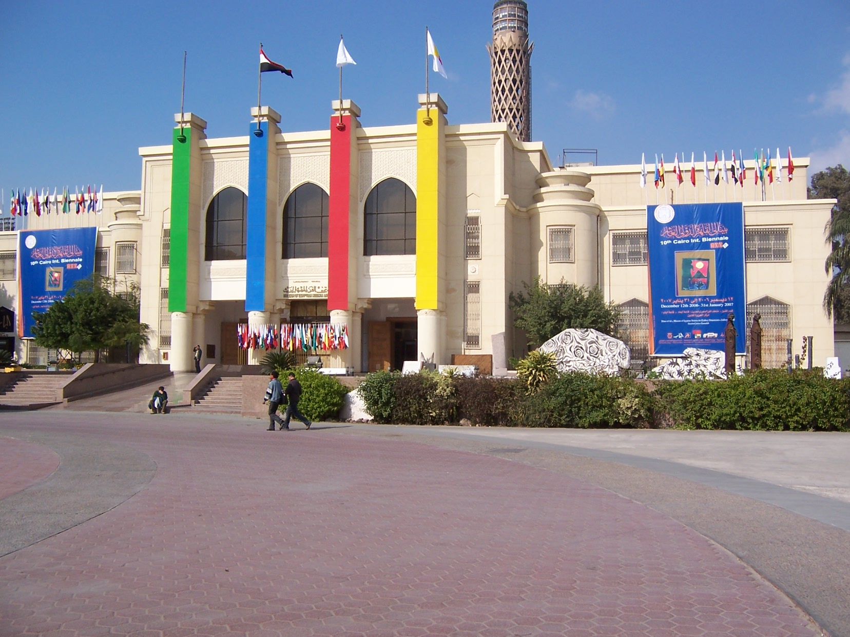 Photos from winter Egypt trip 2007 Jan-Feb